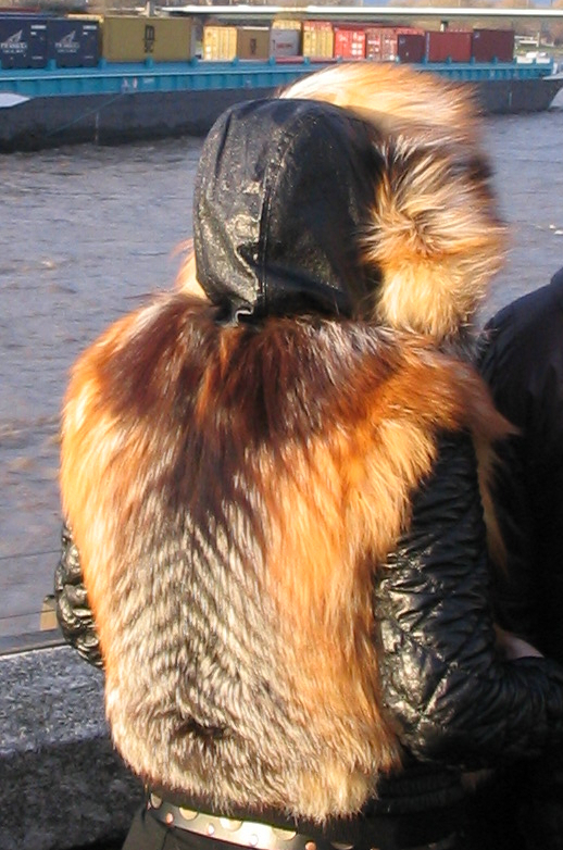 The Rhine at Düsseldorf. Cross fox fur jacket